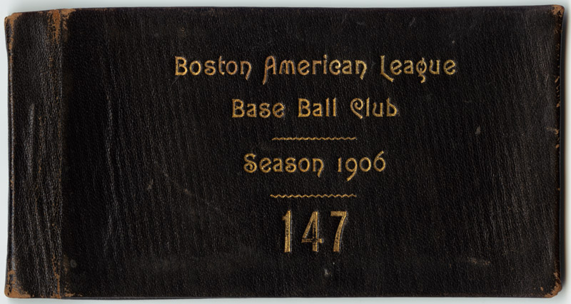 Accession No.: 06_06_000166 Title: Boston Americans season pass, 1906 Creator: unidentified Date: 1906 Format: ephemera Description: Season pass number 147 to the Huntington Avenue Grounds, home field of the Boston Americans. Leather booklet with embossed gold letters: Boston American League Base Ball Club, Season 1906, 147. BPL Collection: McGreevey Collection BPL Department: Print Relation: cover Subject: Baseball--History